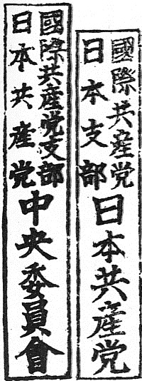 Japanese Communist Party rubber stamps used by Hajime Kawakami